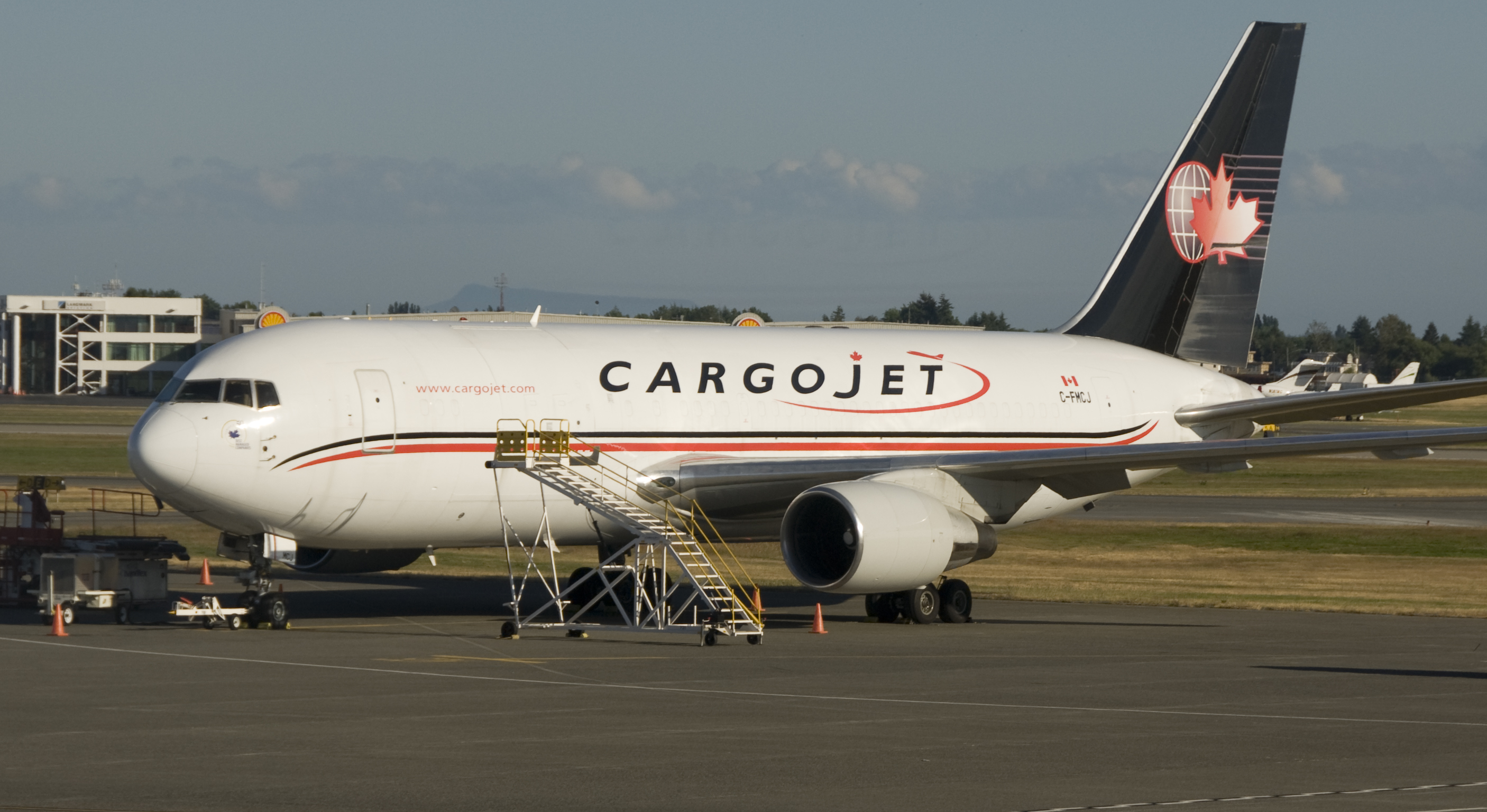 Cargojet Airways Boeing 767-200ER C-FMCJ at Vancouver International Airport